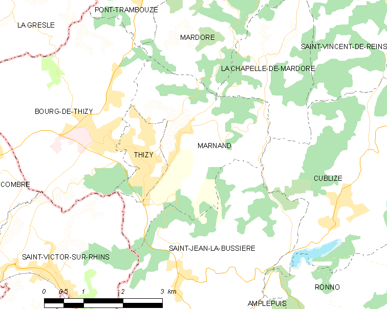 Map of French municipality